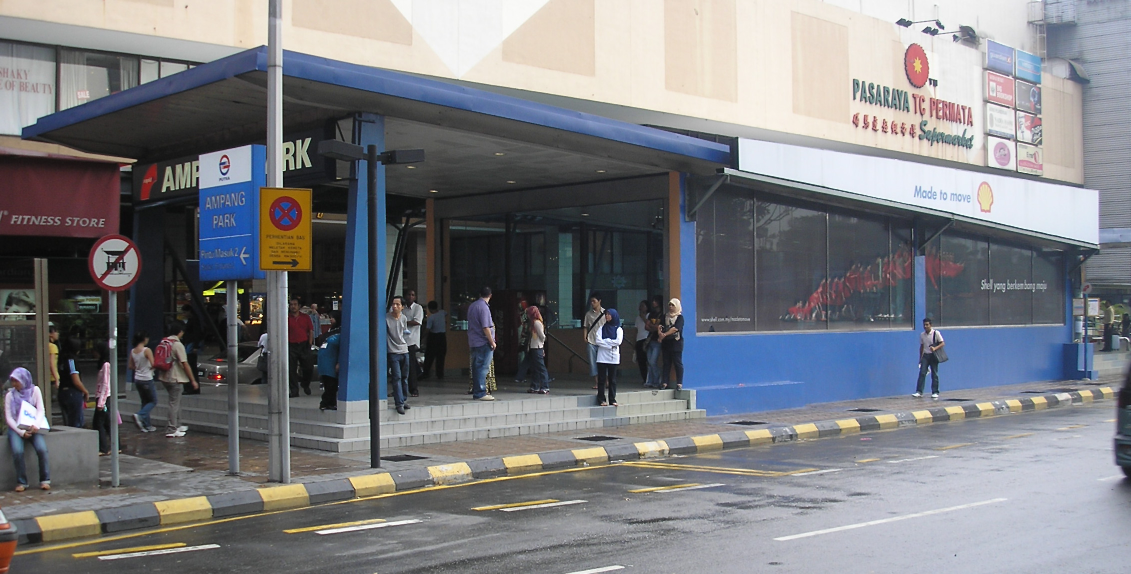 The secondary vestibule of the Ampang Park LRT station (Kelana Jaya Line), in Kuala Lumpur, Malaysia.